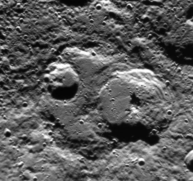 Scopas crater on Mercury. Cropped from MESSENGER Narrow Angle Camera image. Emission Angle: 1.2 Incidence Angle: 82.7 Latitude: -82.5 Longitude: 168.7 Phase Angle: 83.5